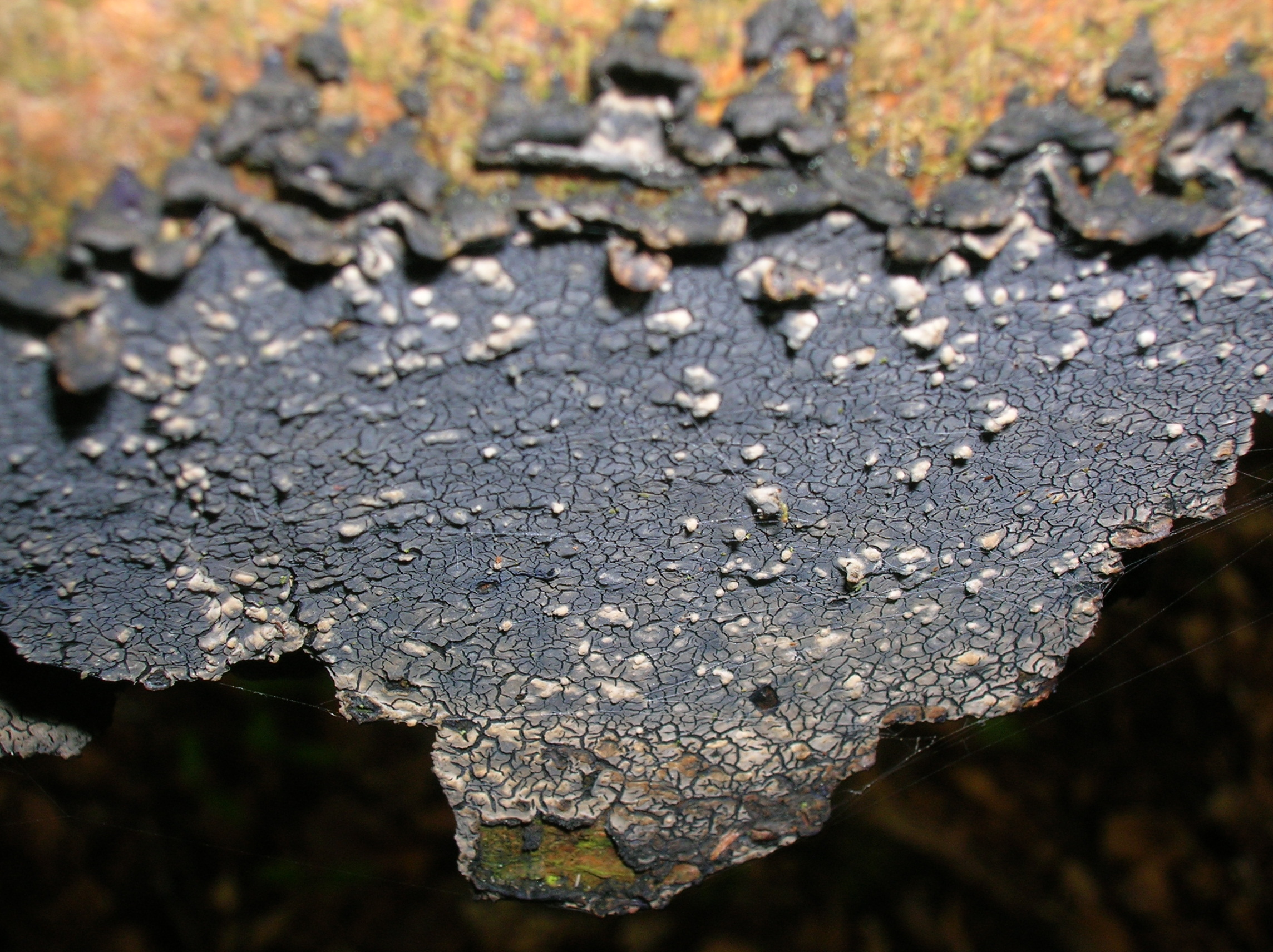 Beech with Cobalt Crust, Pulcherricium caeruleum at Eglinton, Irvine, Ayrshire